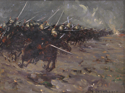 The cavalry charge, depicting World War I events?